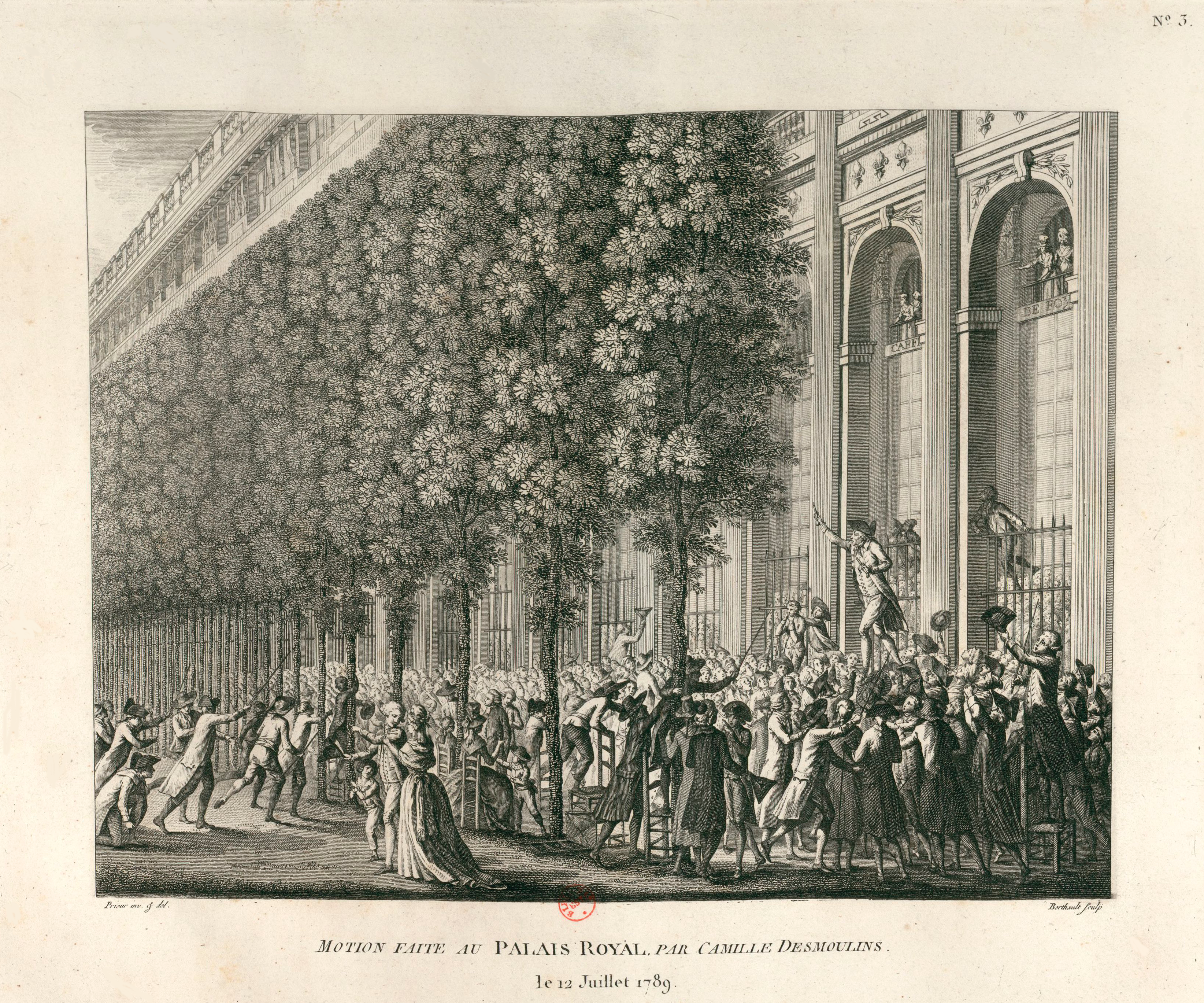 Camille Desmoulins on 12 july 1789